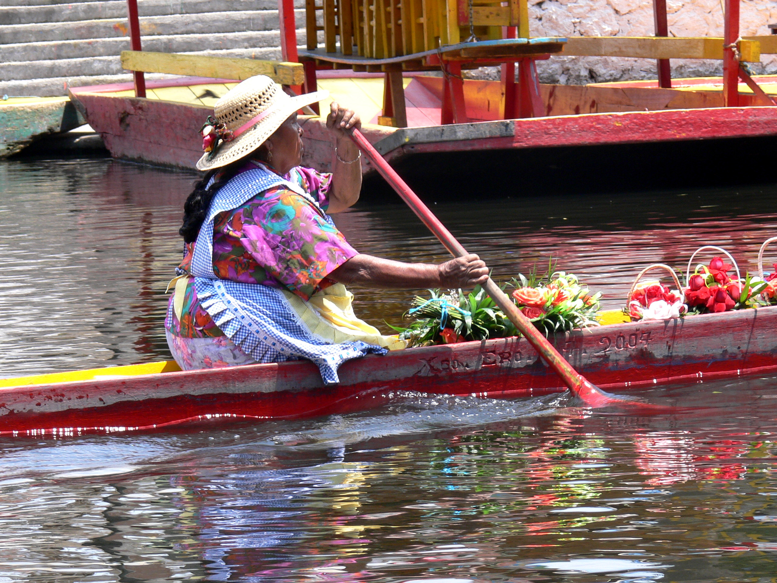 Canals of Xochimilco. Vendor of flowers in her boat.